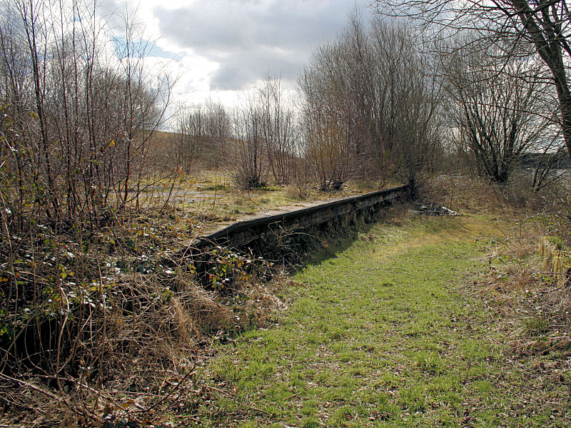 The remains of Kilbirnie railway station, looking south-east.